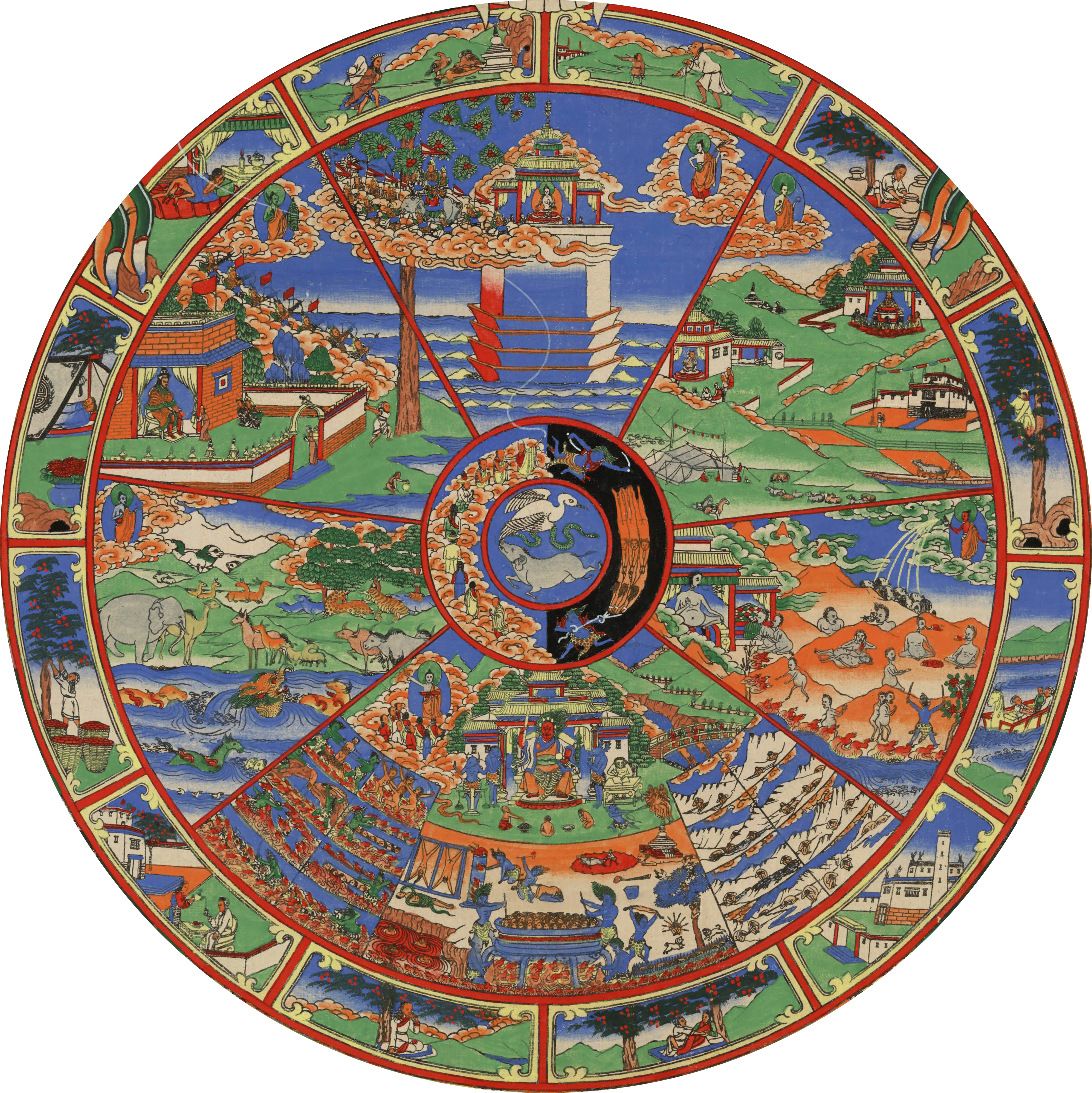 Representation of samsara in Budism (detail).